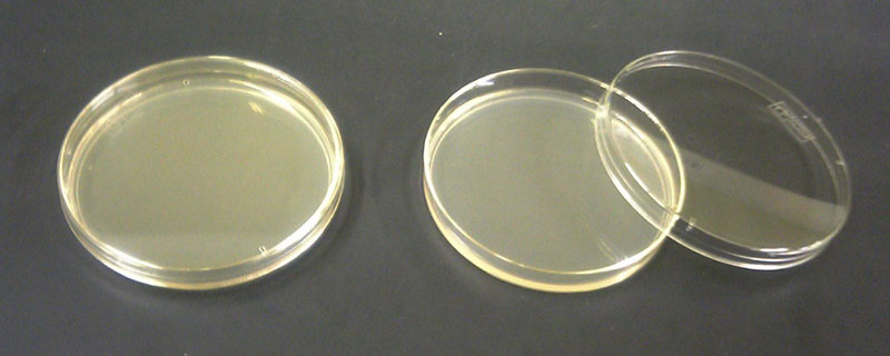 Agar Plates (heart infusion agar medium, in 100 mm φ petri-dish) for bacterial culture.